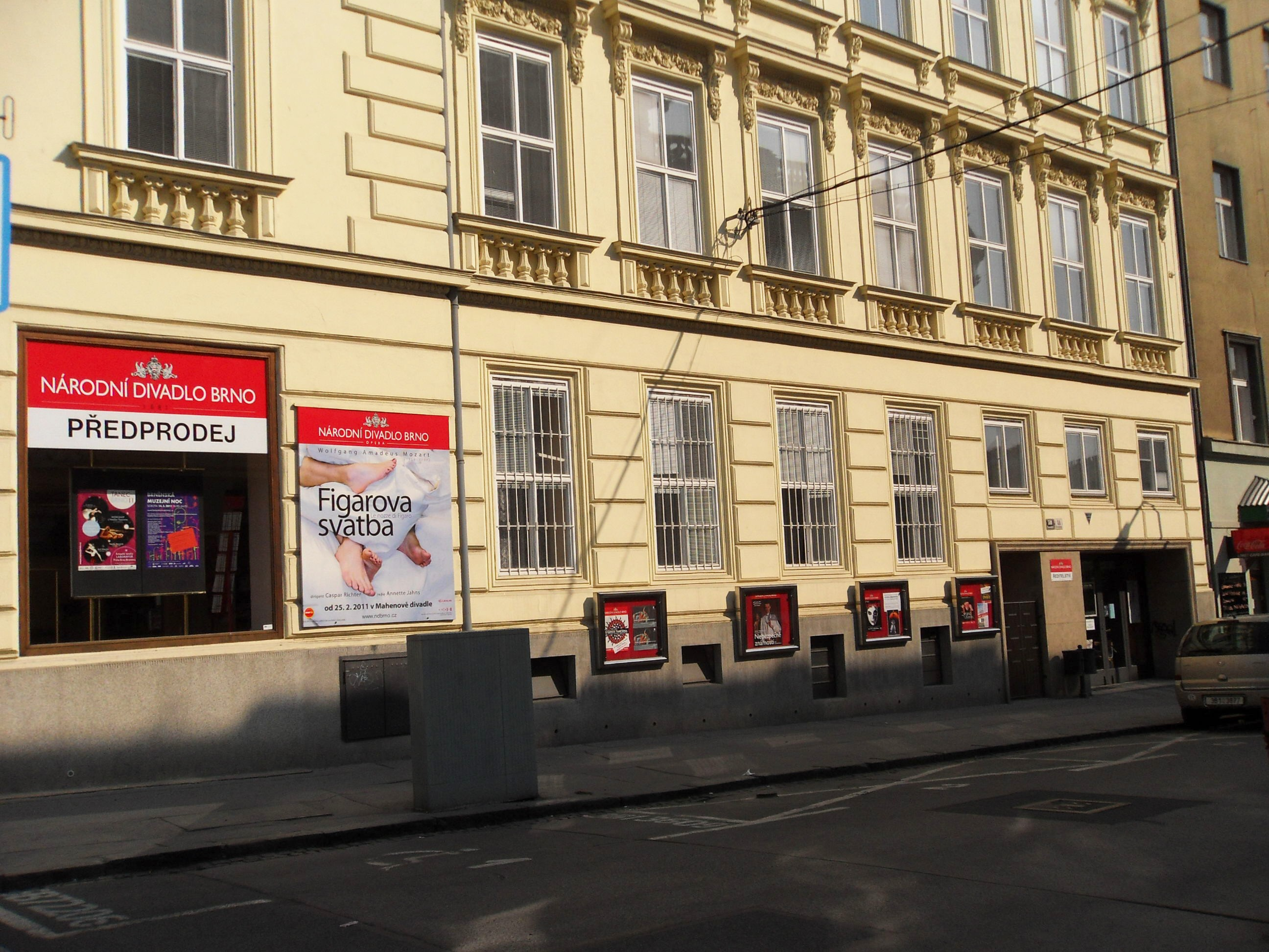 Headquarters of Národní divadlo Brno (National theater Brno), Dvořákova street, Brno, Czech Republic